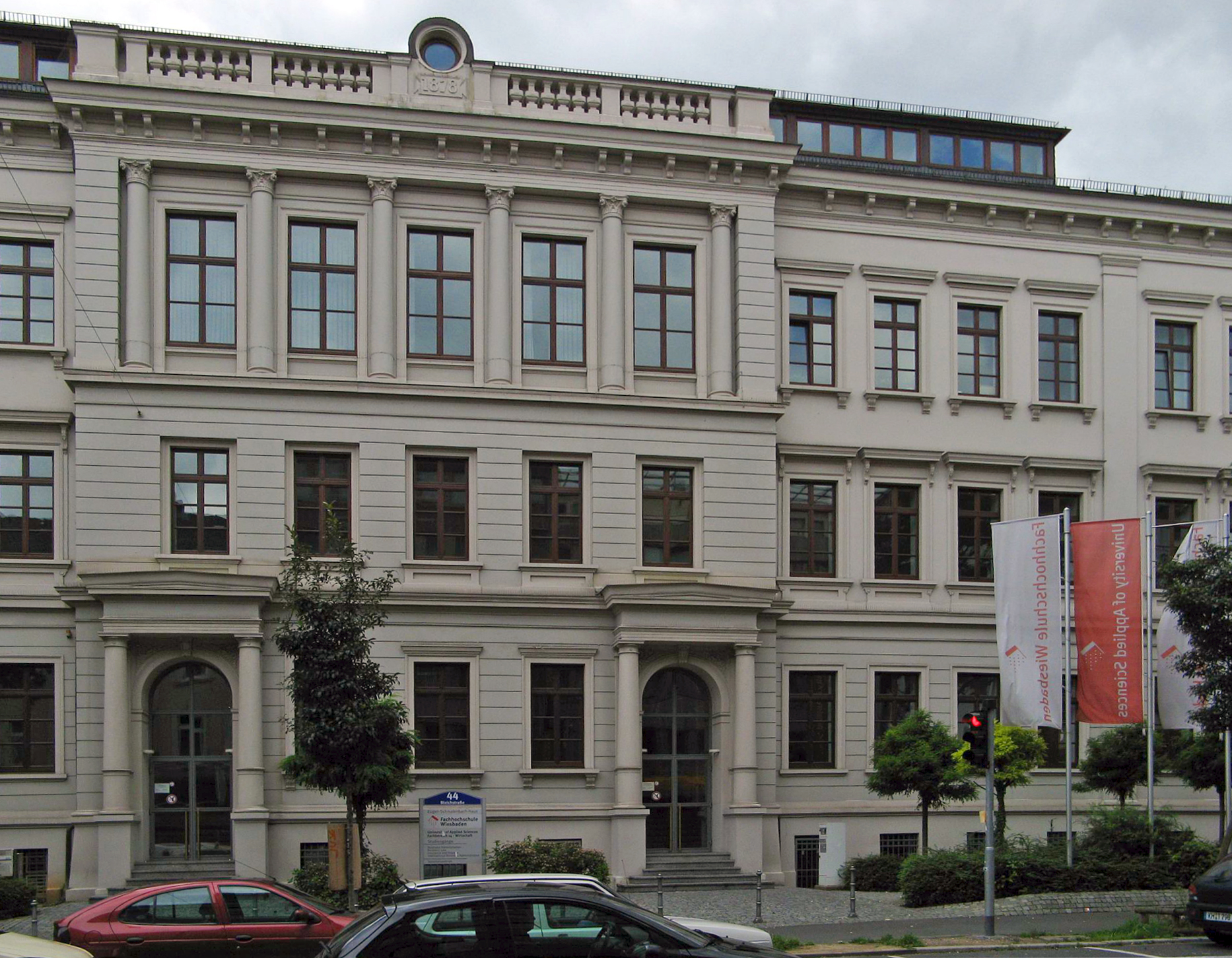 Hochschule RheinMain, University of Applied Sciences, Building Bleichstrasse, Wiesbaden, Germany, Location of Department of Economics